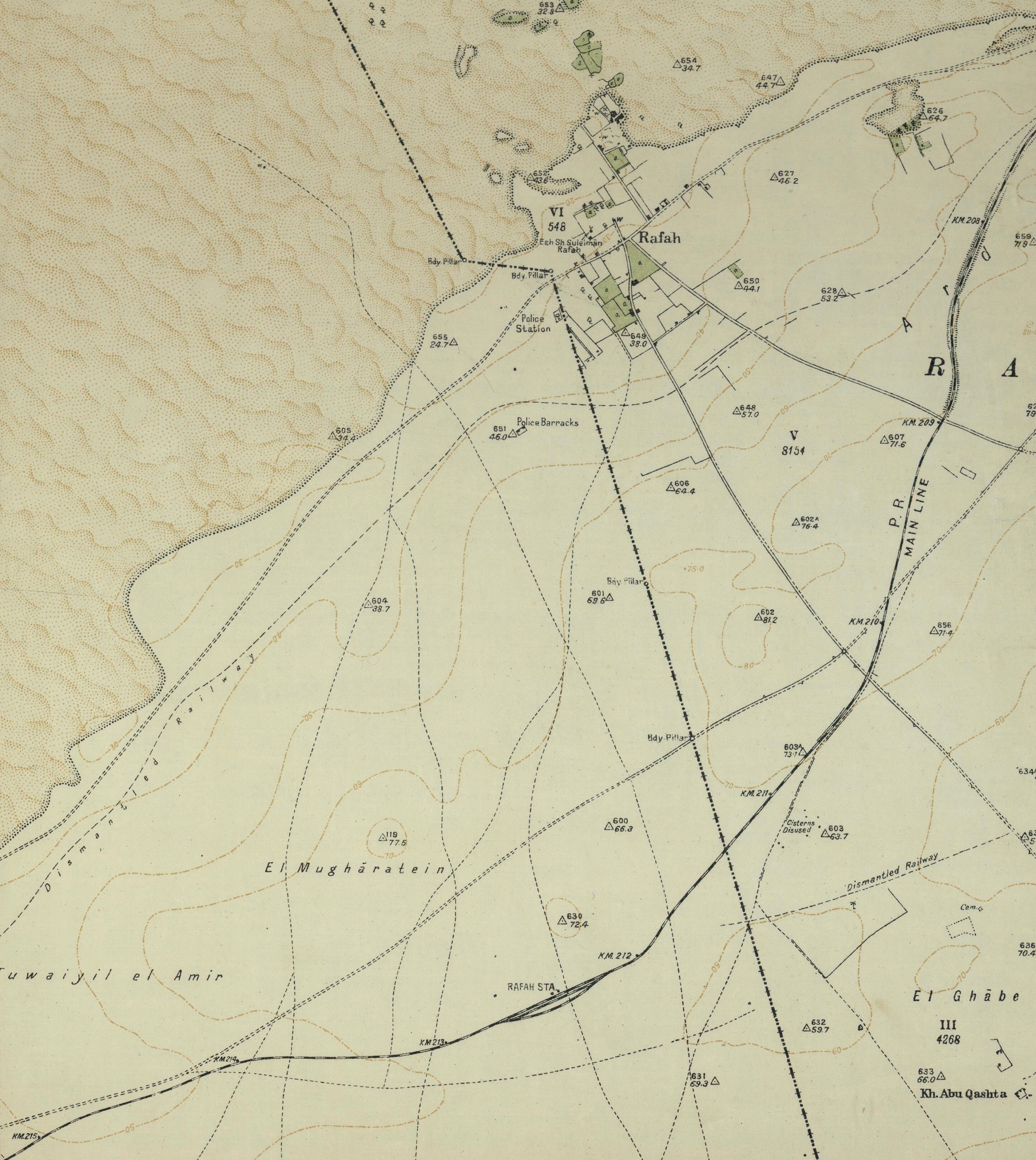 Rafah 1931 1:20,000